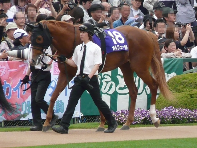 Orfevre at the 2012 Tenno Sho (Spring) horserace